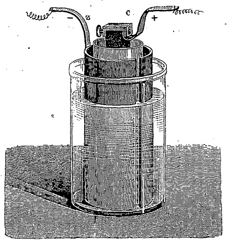 Pile Archereau (anode en charbon de cornue et inversion des électrodes par rapport à celle de Bunsen)